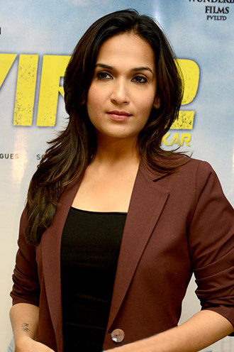 Soundarya Rajinikanth promotes VIP2 in Delhi.